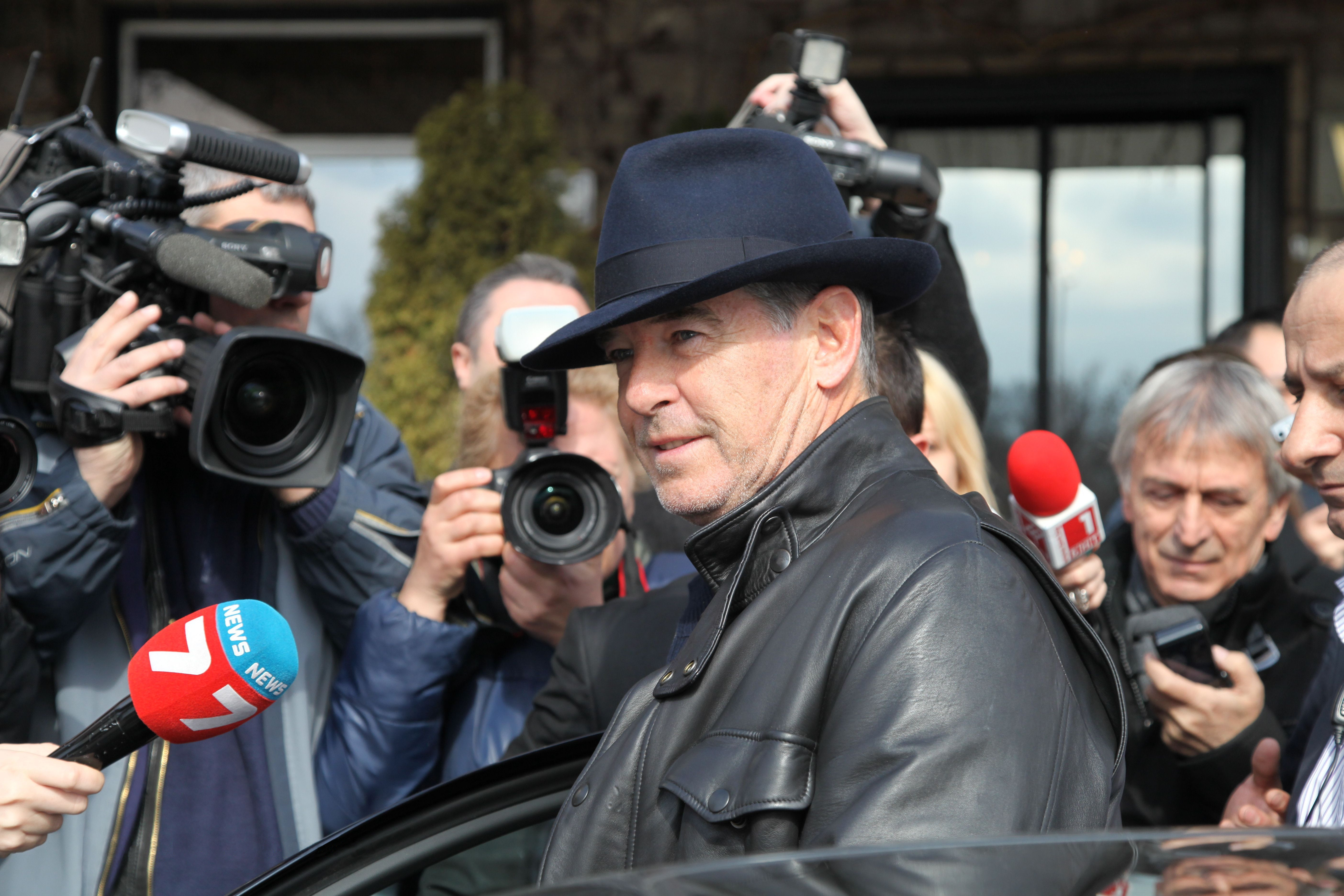 Pierce Brendan Brosnan OBE (/ˈbrɒsnən/; born 16 May 1953) is an Irish-American actor, film producer, and activist. Born an Irish citizen, Brosnan is a naturalized American citizen.[2] After leaving comprehensive school at age 16, Brosnan began training in commercial illustration, then went on to train at the Drama Centre in London for three years. Following a stage acting career he rose to popularity in the television series Remington Steele (1982–1987), which blended the genres of romantic comedy, drama, and detective procedural. After the conclusion of Remington Steele, Brosnan appeared in films such as the Cold War spy film The Fourth Protocol (1987) and the comedy Mrs. Doubtfire (1993).